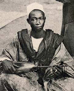 griot de la antigua africa